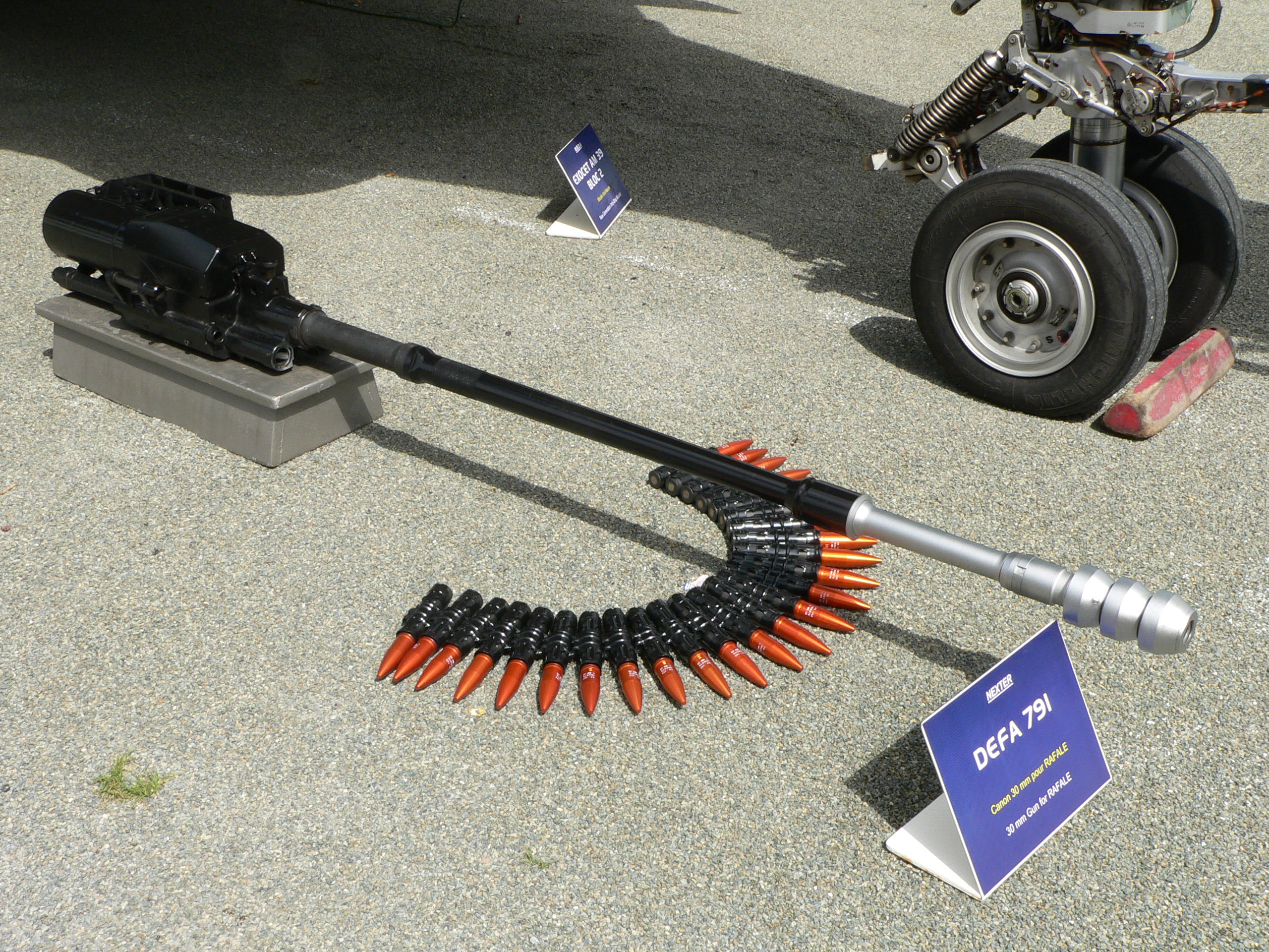 Nexter DEFA 791 cannon (for a Dassault Rafale)